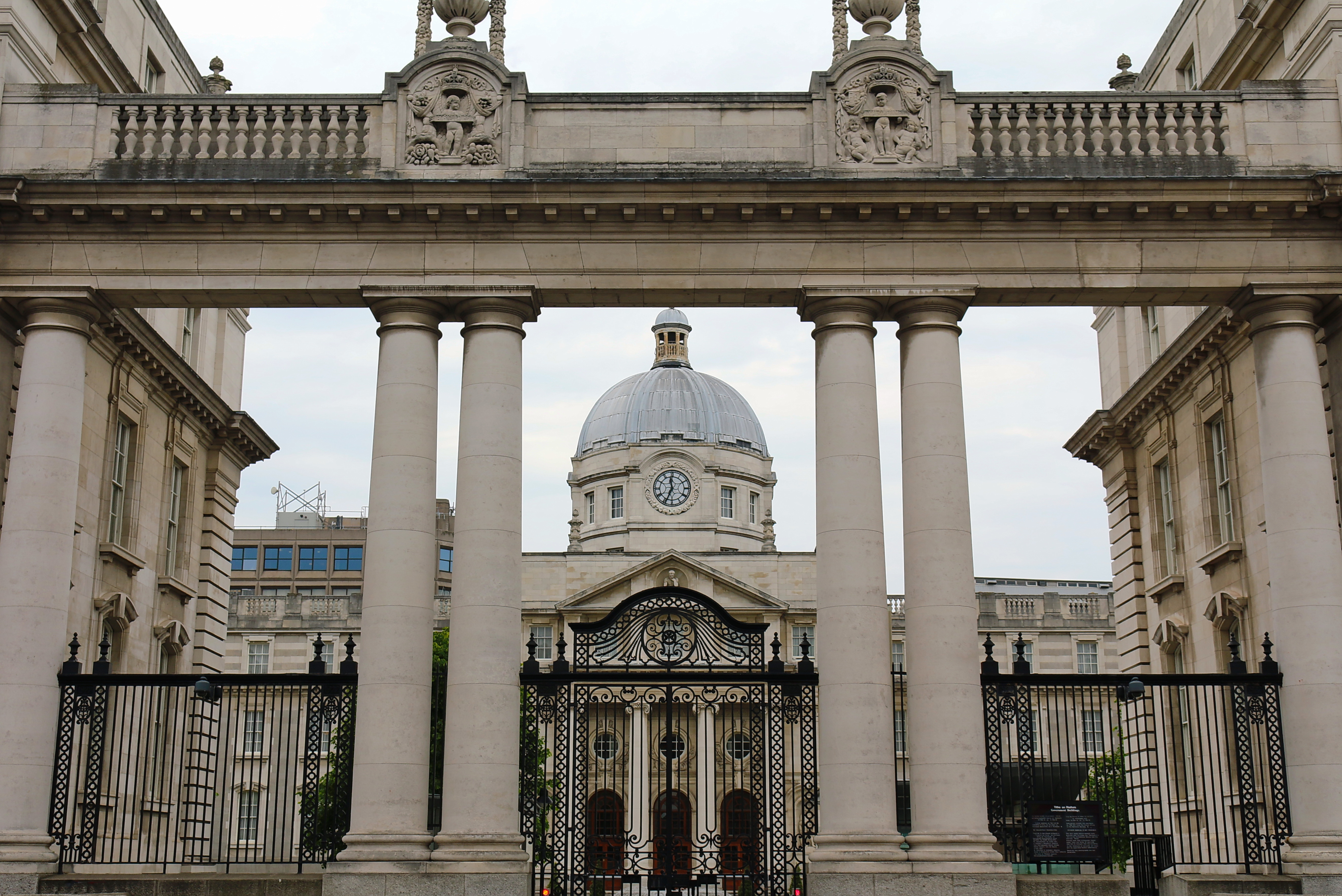 Government Buildings, Merrion St Upper, Dublin, Co. Dublin, Ireland